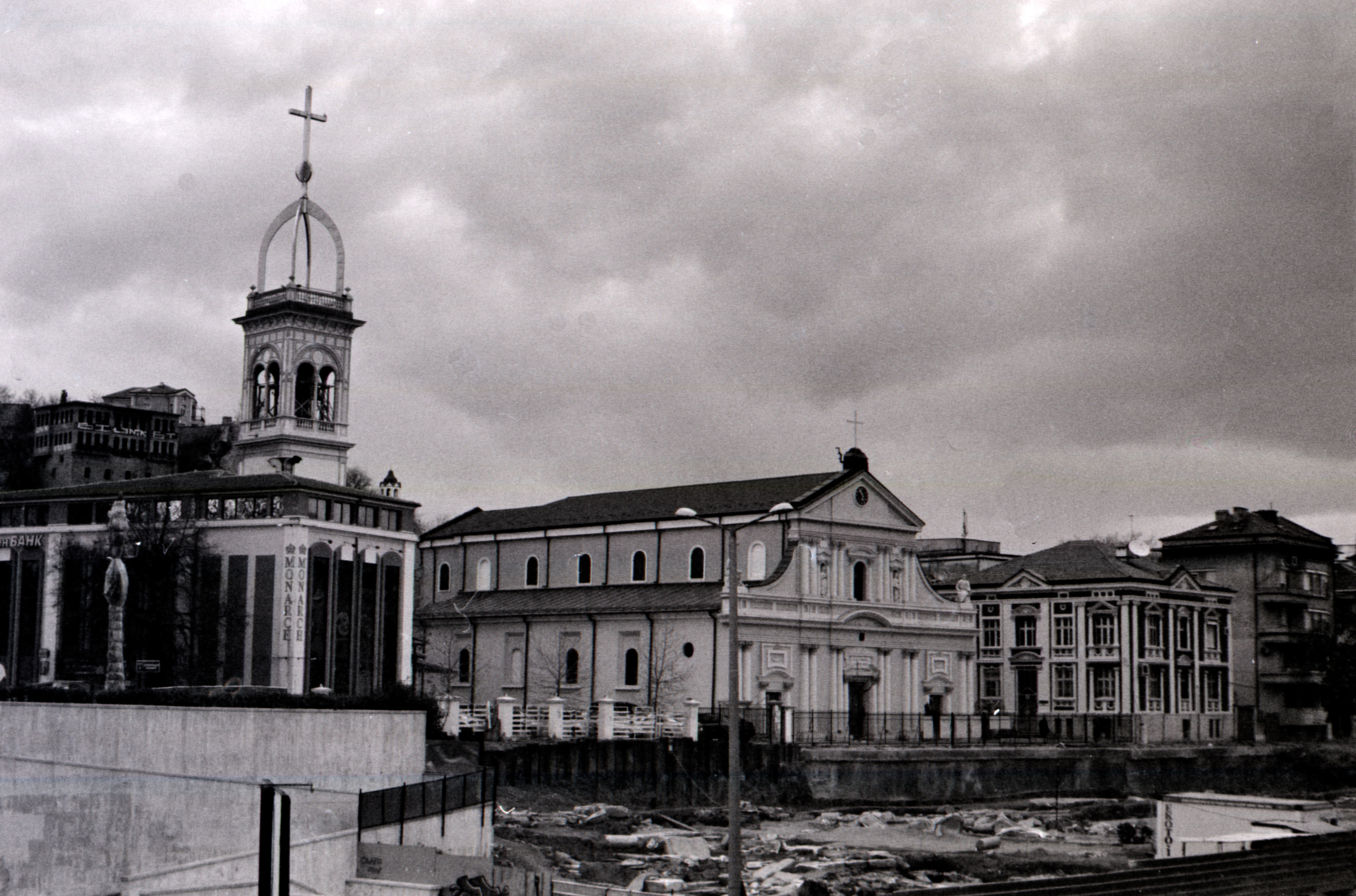 Plovdiv - st. Louis cathedral